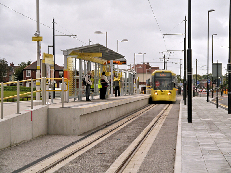 Audenshaw Metrolink Stop: Phase 3b of the Metrolink East Manchester Extension opened between Droylsden and Ashton–Under-Lyne on Wednesday, 9 October 2013. The new extension added a further 2.1 miles and 4 new stops to the route. Here, Bombardier M5000 tram number 3001 is at the outward (Ashton) bound platform of the Audenshaw stop which is off–road, just to the east of Lumb Lane and south of Droylsden Road in the gyratory road layout. It has an island platform with ramps down to track level pedestrian crossings at both ends.